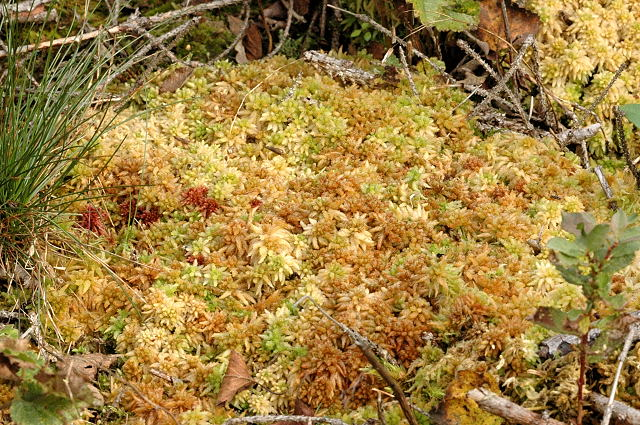 Picture taken in Commanster, Belgian High Ardennes . Species: Sphagnum papillosum